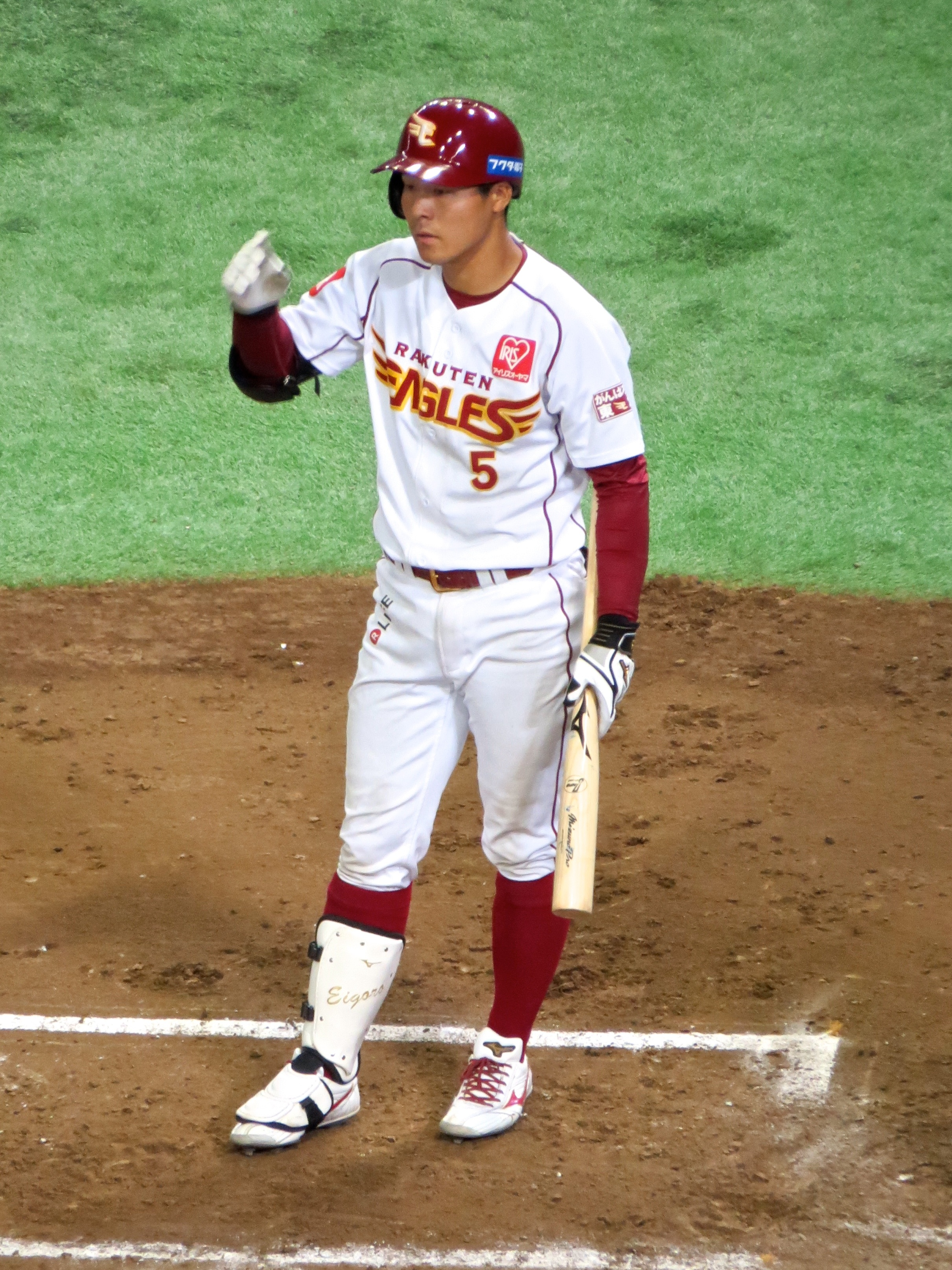 Eigoro Mori, infielder of the Tohoku Rakuten Golden Eagles, at Tokyo Dome